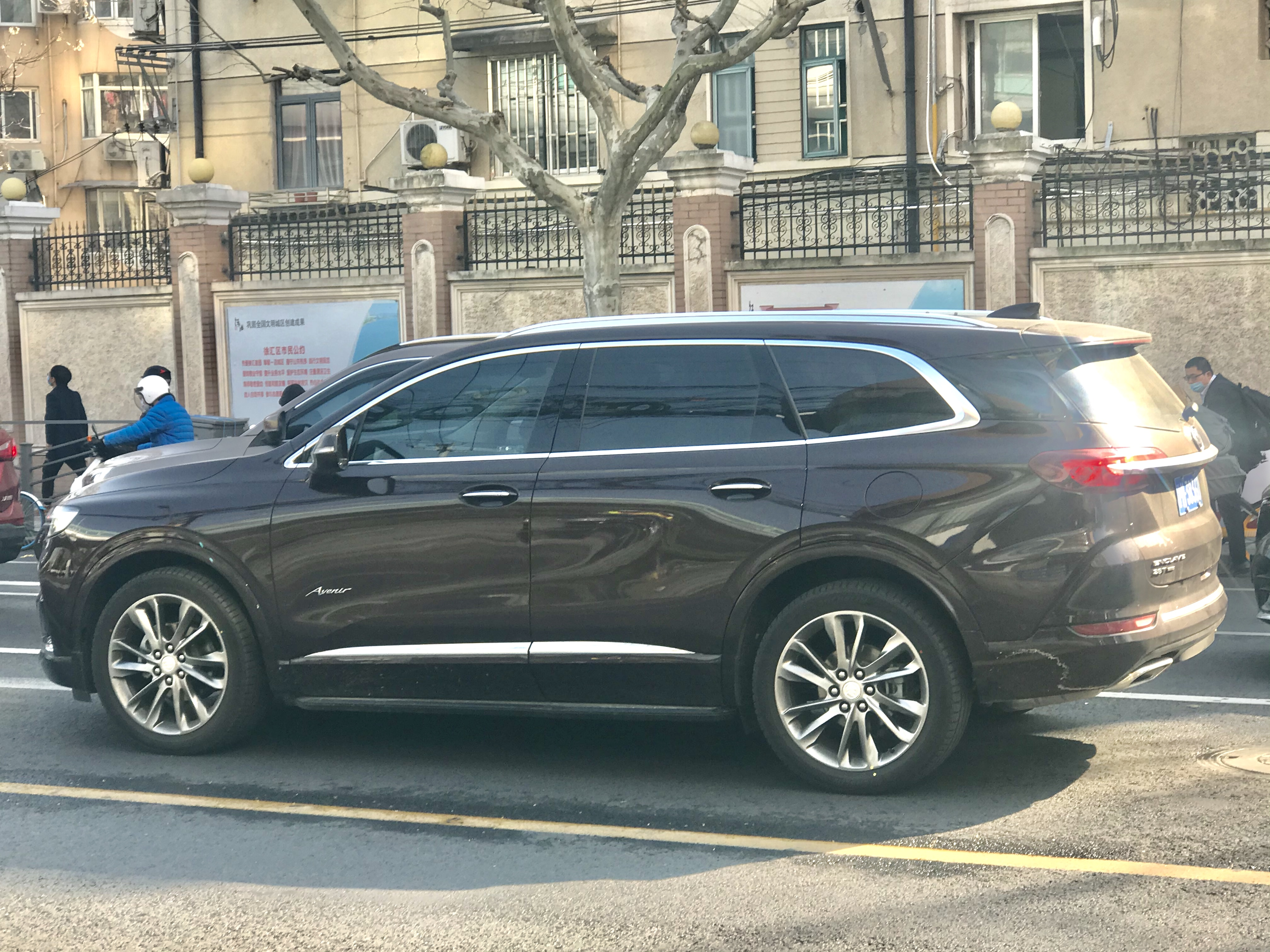 Buick Enclave (Chinese Version)